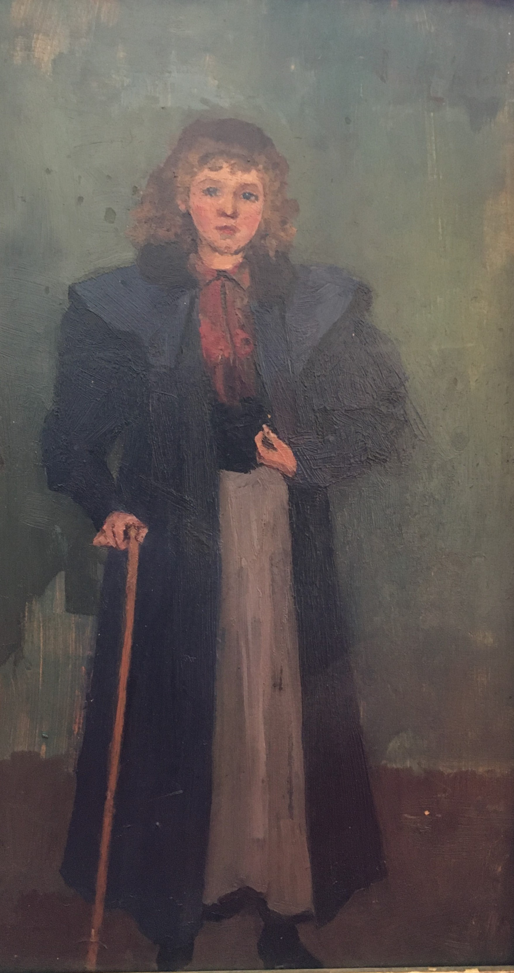 A portait of the actress Lily Digges, by Dering Curtois